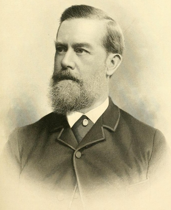 John Lauris Blake, New Jersey Congressman